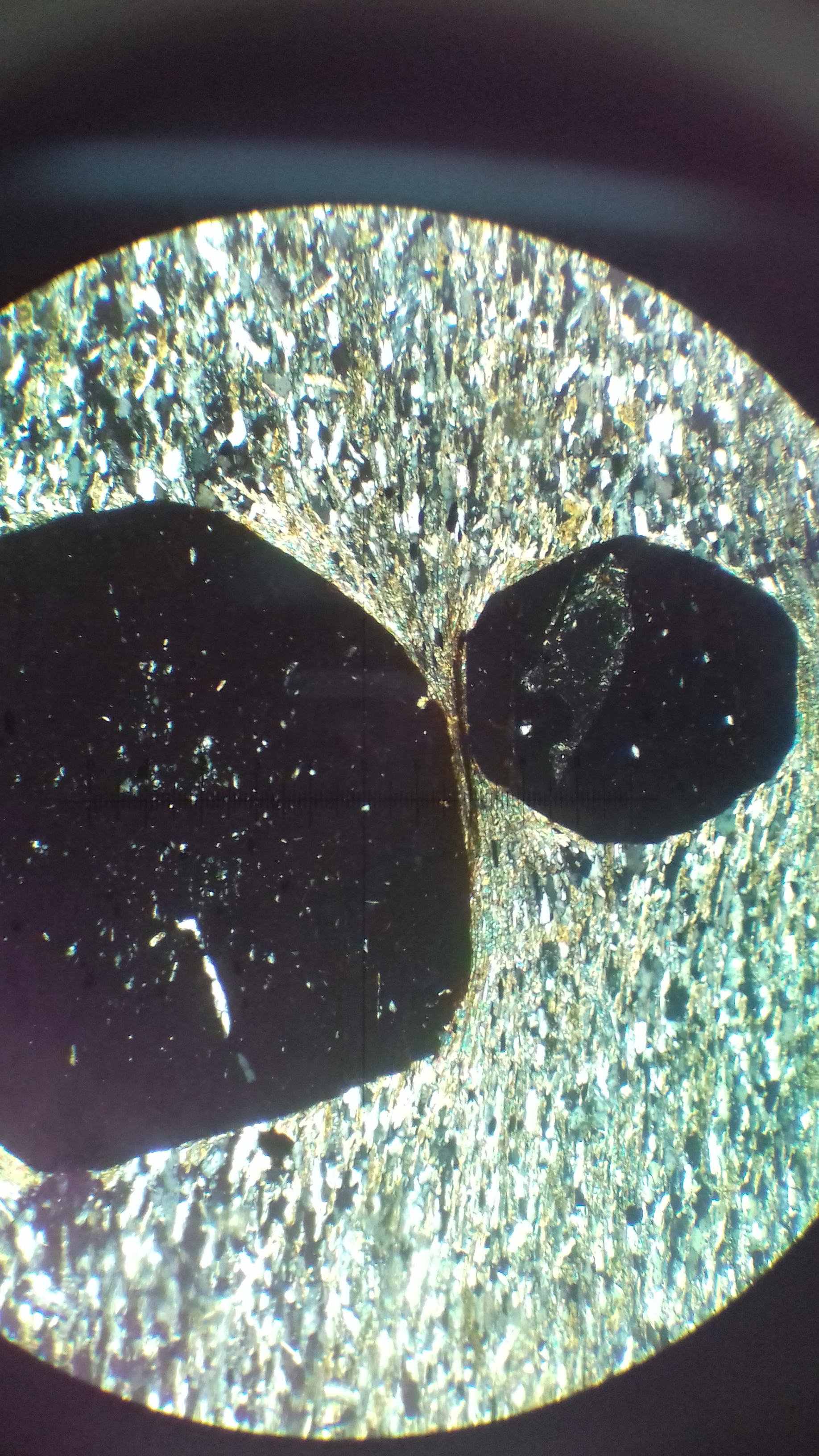 Sample of Metamorphic Rock (Metapelite), seen under a microscope with a 5X magnification (diameter of 4 mm) at crossed nycols. They emphasize the garnet crystals immersed in a matrix of micas, quartz and opaque minerals. It has lepidoporfidoblastic texture, which is related to the micas entrecrecidas and homogenously oriented. It also has schistosity, which is identified with the orientation of grain micas in parallel. An intermediate degree of metamorphism is associated, with medium-high temperature and pressure conditions. Regarding the mineralogy observed in the cut (mineral,%, size range): Garnet, 10%, (≈1 mm - ≈2.4 mm) Biotites / Micas, 40%, (microcrystalline) Quartz, 40%, (microcrystalline) Opaque minerals, 10%, (≈0.7 mm)